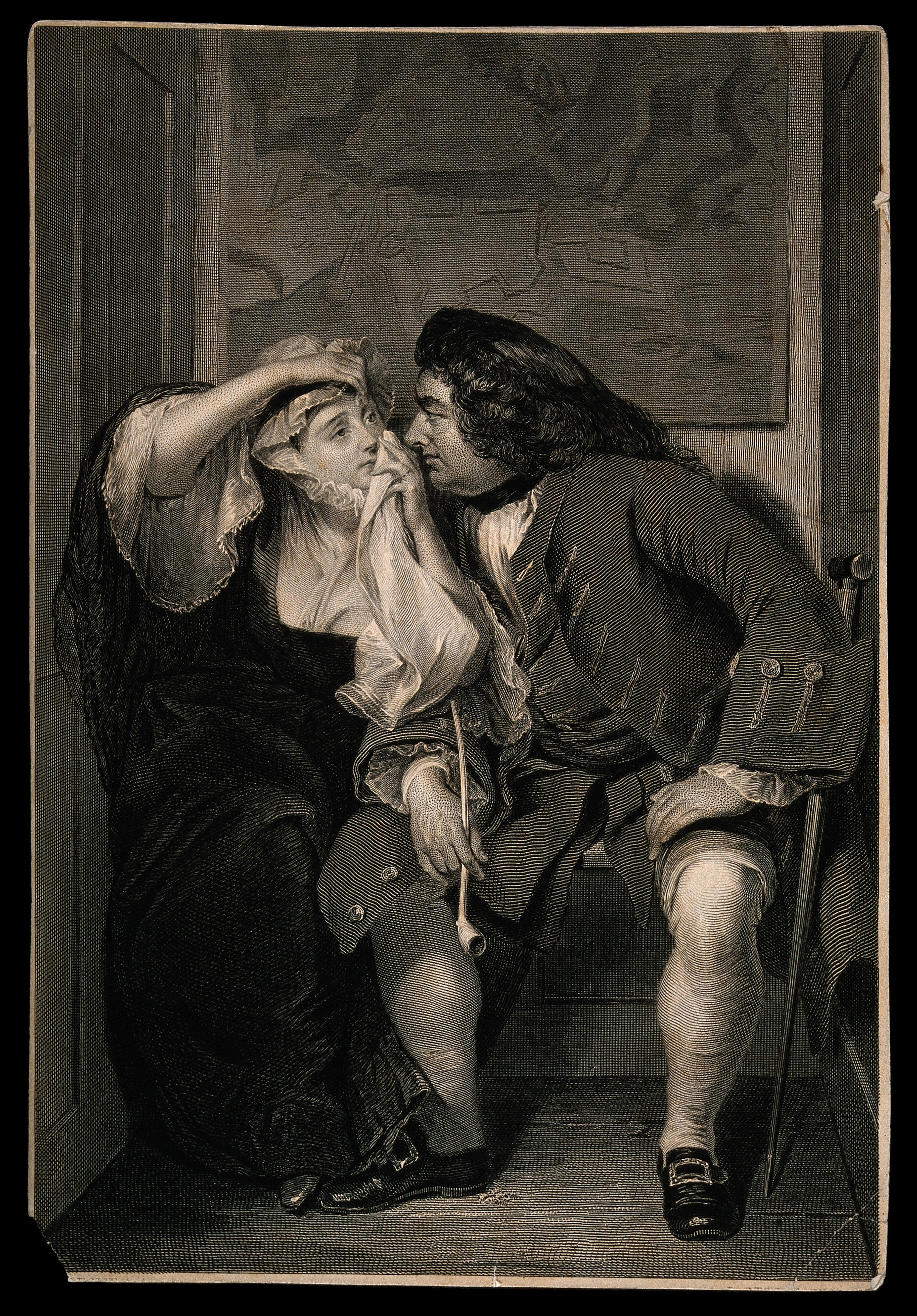 A scene from L. Sterne's "Tristram Shandy": a man looks into a lady's eye, as she holds it open for him. Line engraving by L. Stocks(?) after C.R. Leslie, 1831. Iconographic Collections Keywords: sterne, laurence, 1713-1768; leslie, charles robert 1794-18; Laurence Sterne; Charles Robert Leslie